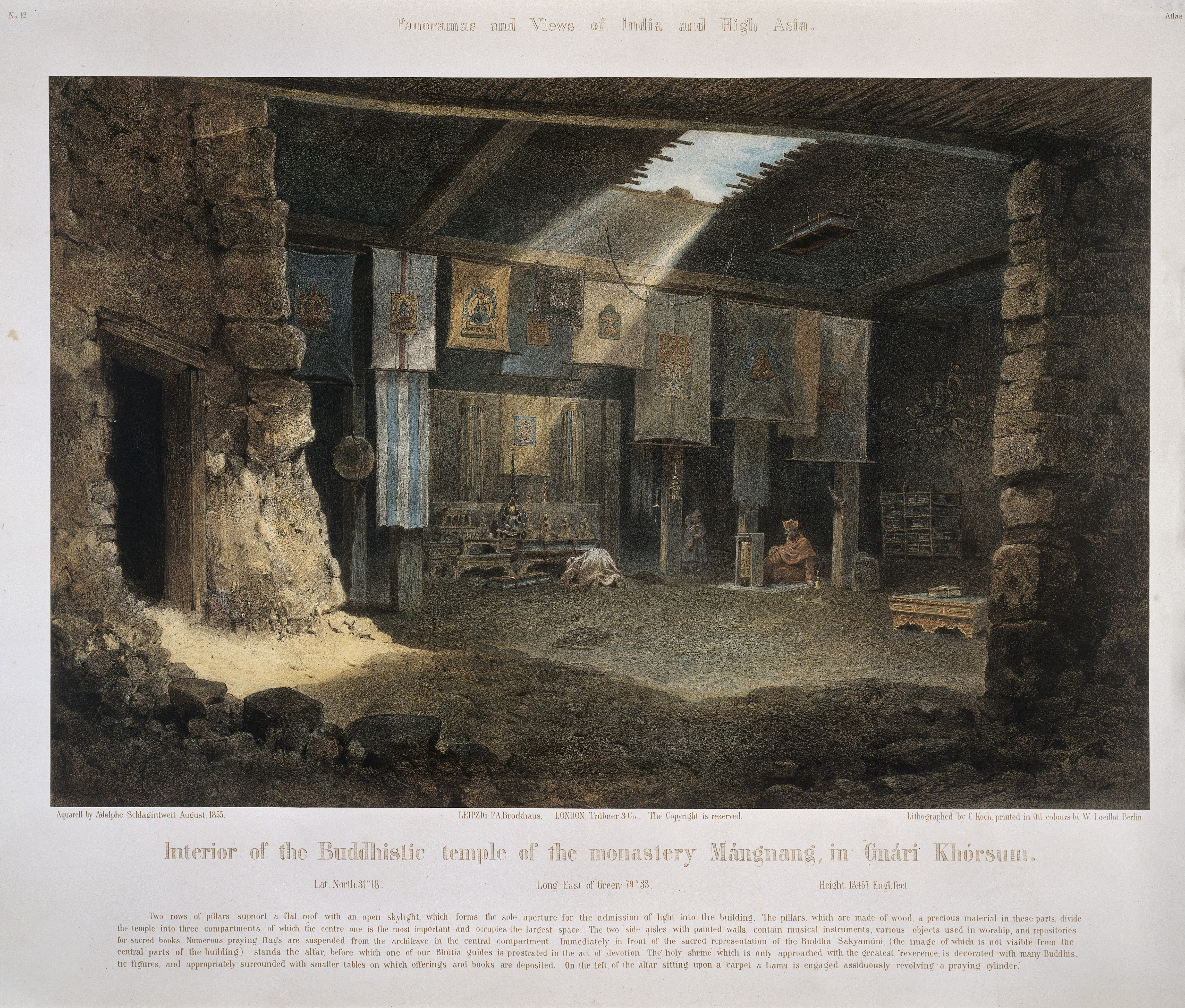 Interior of the Buddhistic temple of the monastery Mangnang, in Gnar I khorsum Rare Books